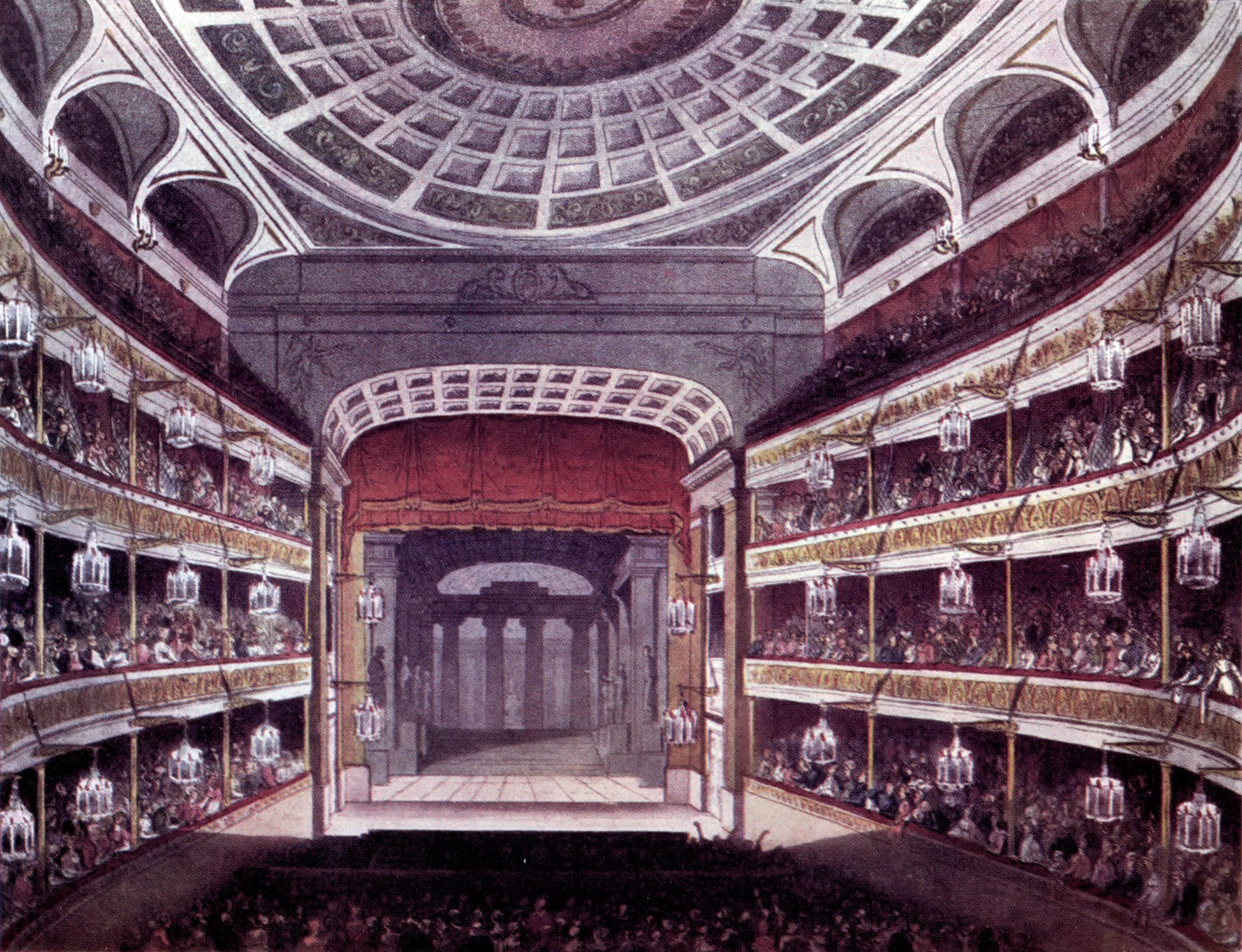 New Covent Garden Theatre